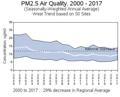 A graph of particulate levels in the atmosphere as determined by the US Environmental Protection Agency